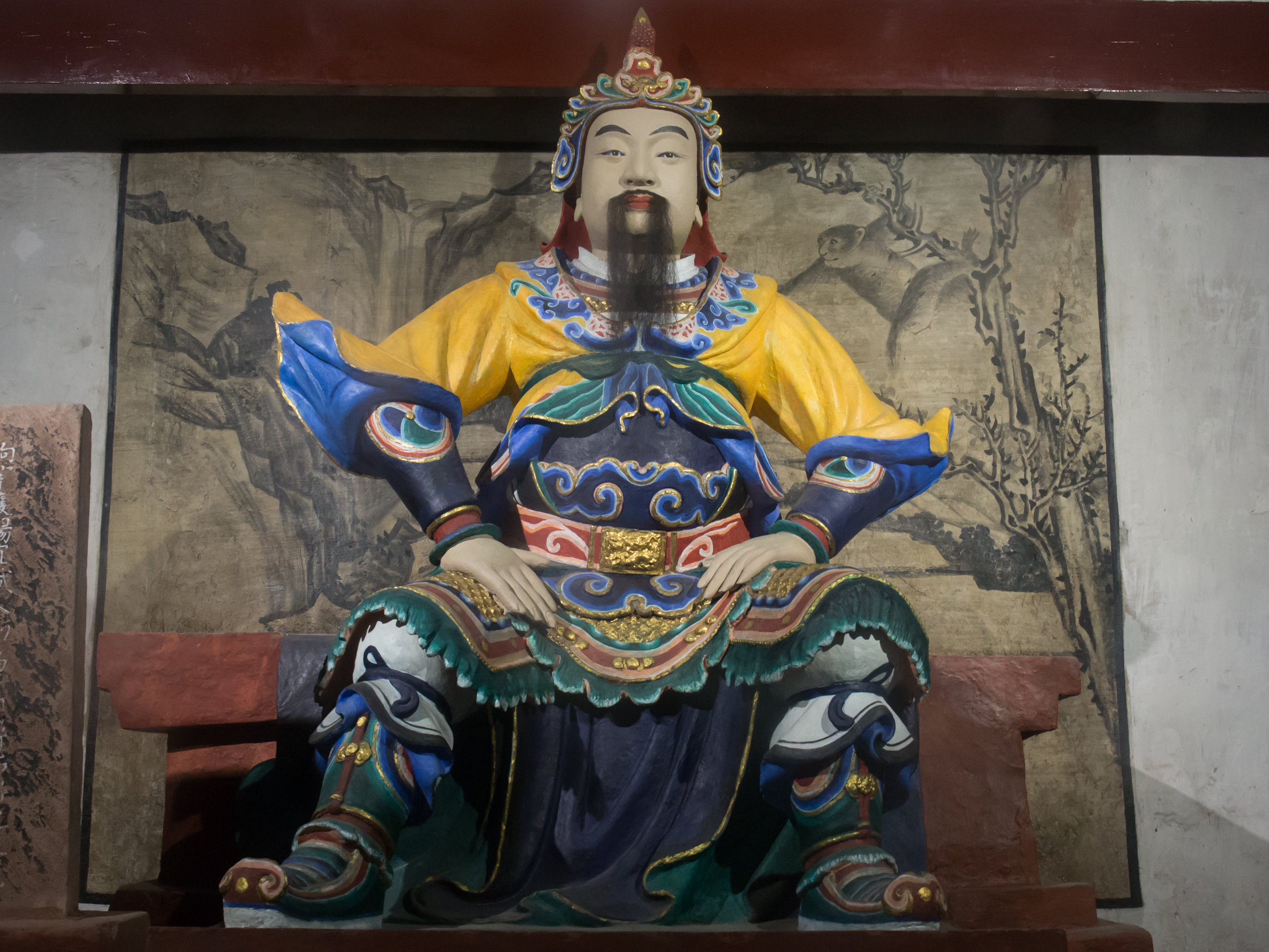 Xiang Chong (向寵)